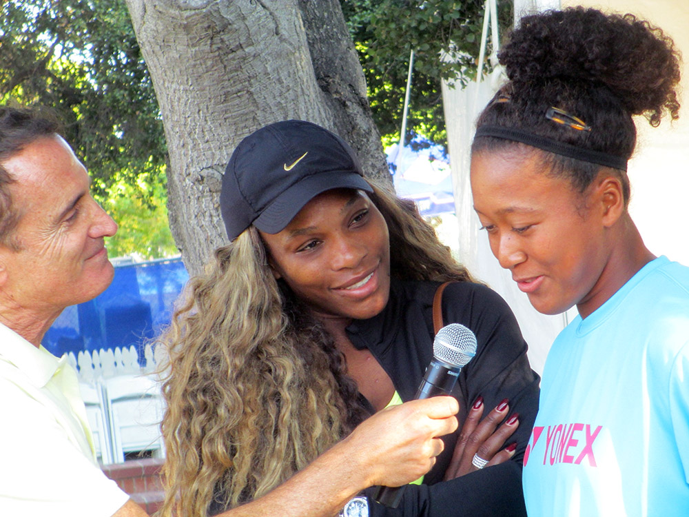 Osaka being interviewed with Serena Williams at the 2014 Bank of the West Classic